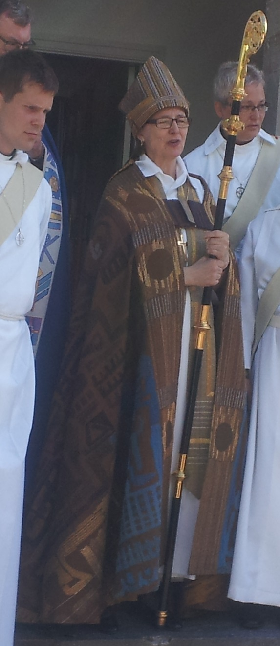 Bishop of Härnösand (Church of Sweden) Tuulikki Koivunen Bylund outside of the church after an ordination.